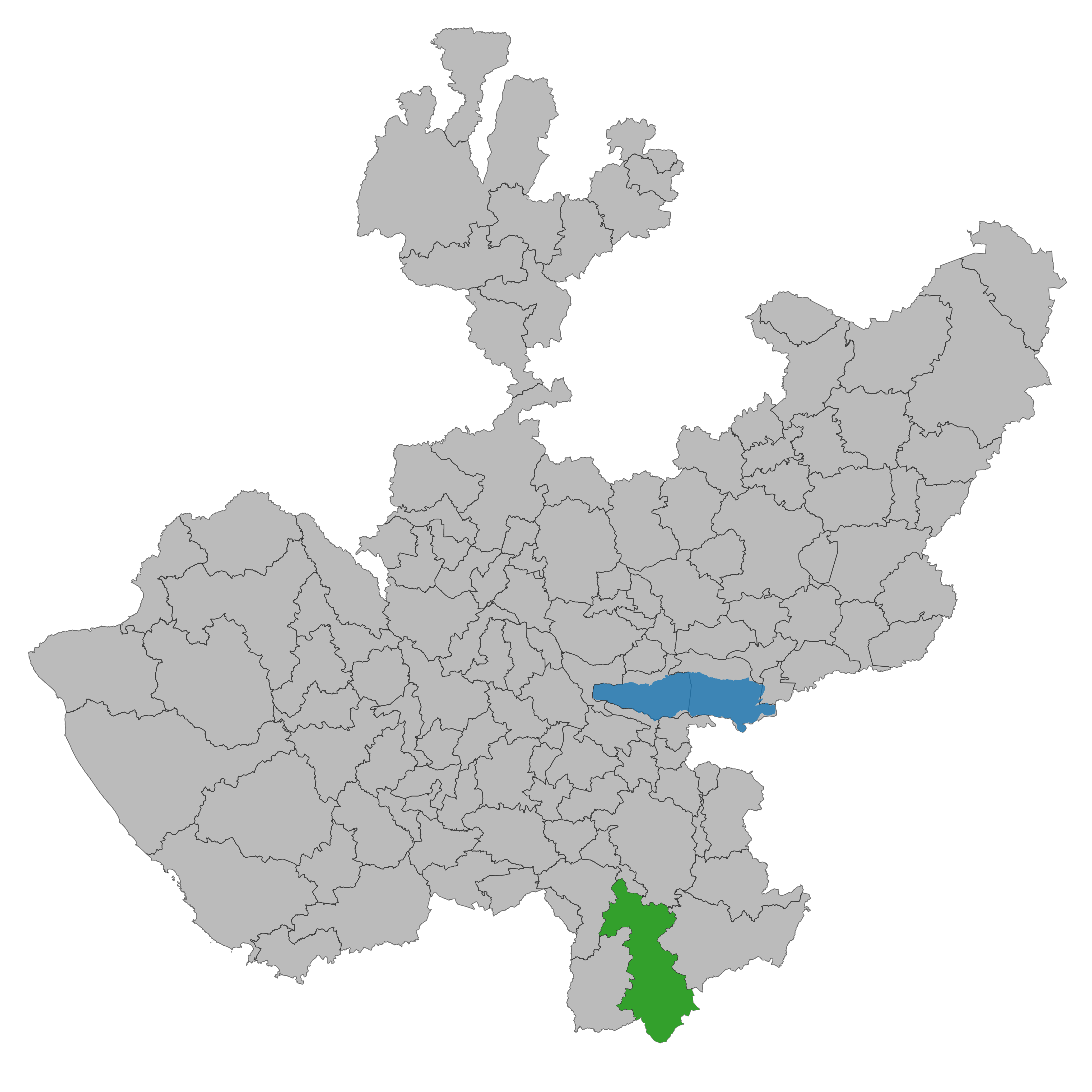 Municipality of Jalisco. Prepared with the software QGIS version 2.8.2 Wien & with information of SCINCE 2010 version 05/2013